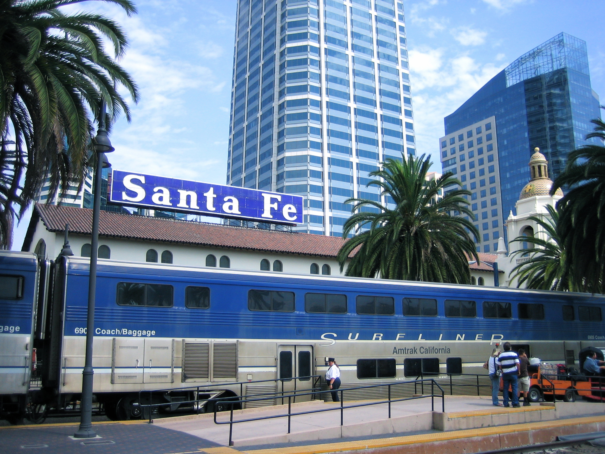 A view of the Surfliner train parked at the platform of the downtown San Diego train station.